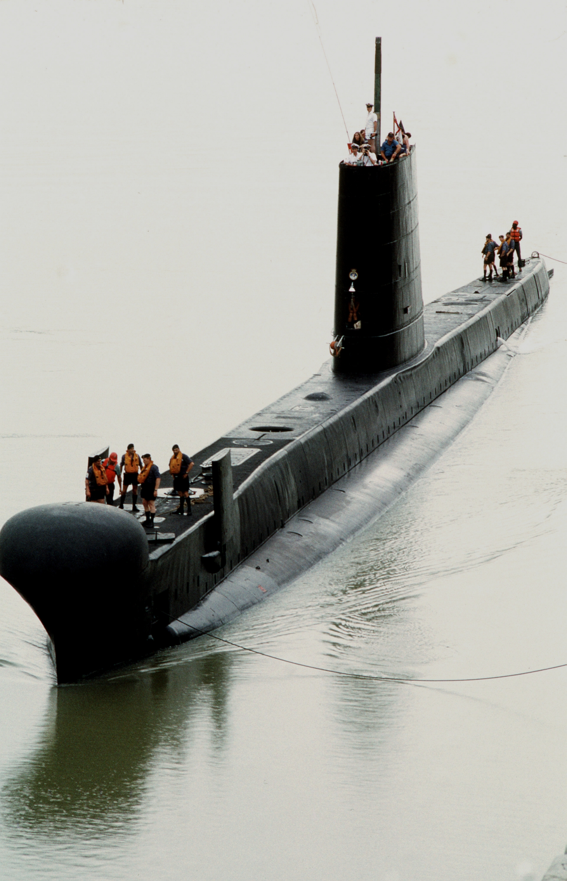 Royal Navy crewmen stand on the deck of the British submarine HMS Ocelot (S17) as it passes through the Miraflores Locks during its transit of the Panama Canal in 1989.